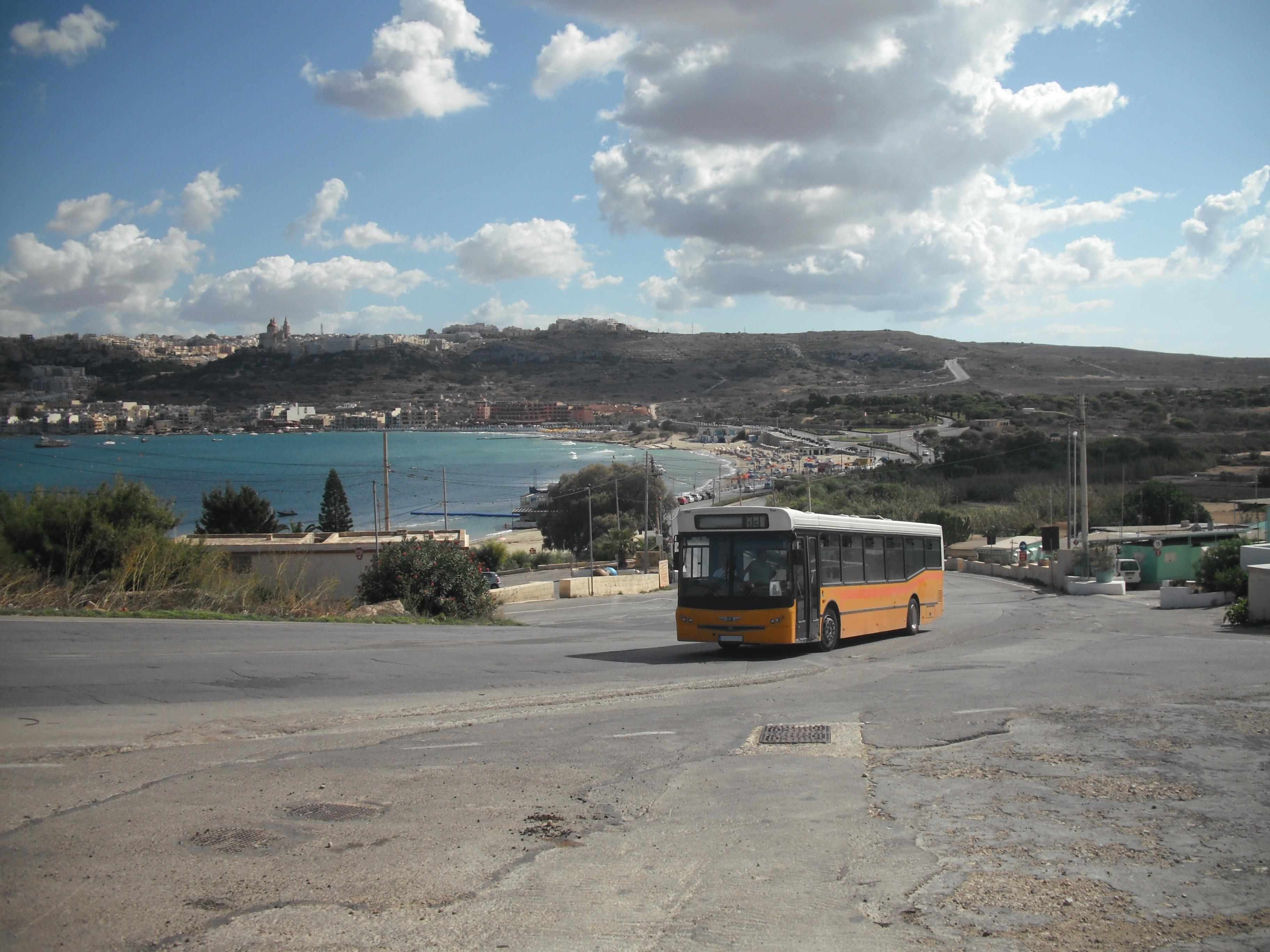 A BMC Falcon (Import from Turkey) driving uphill from Melieha Bay to Cirkewwa. This Bus has the old livery in orange and red. Normally the old livery busses are not in use anymore but this was used as driving school (recognizable by the "L" in the front window)